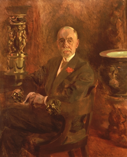 "Portrait of President Manuel Teixeira Gomes"